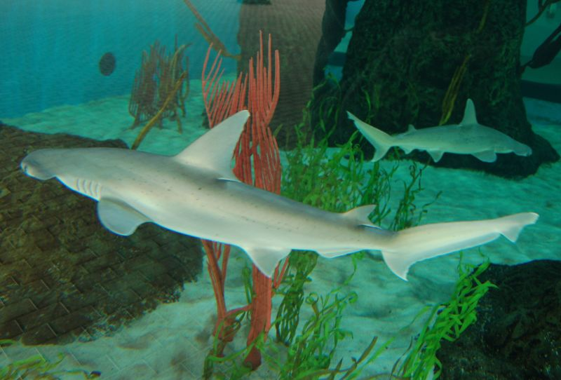 Bonnethead sharks (Sphyrna tiburo) at the Mote Marine Aquarium.